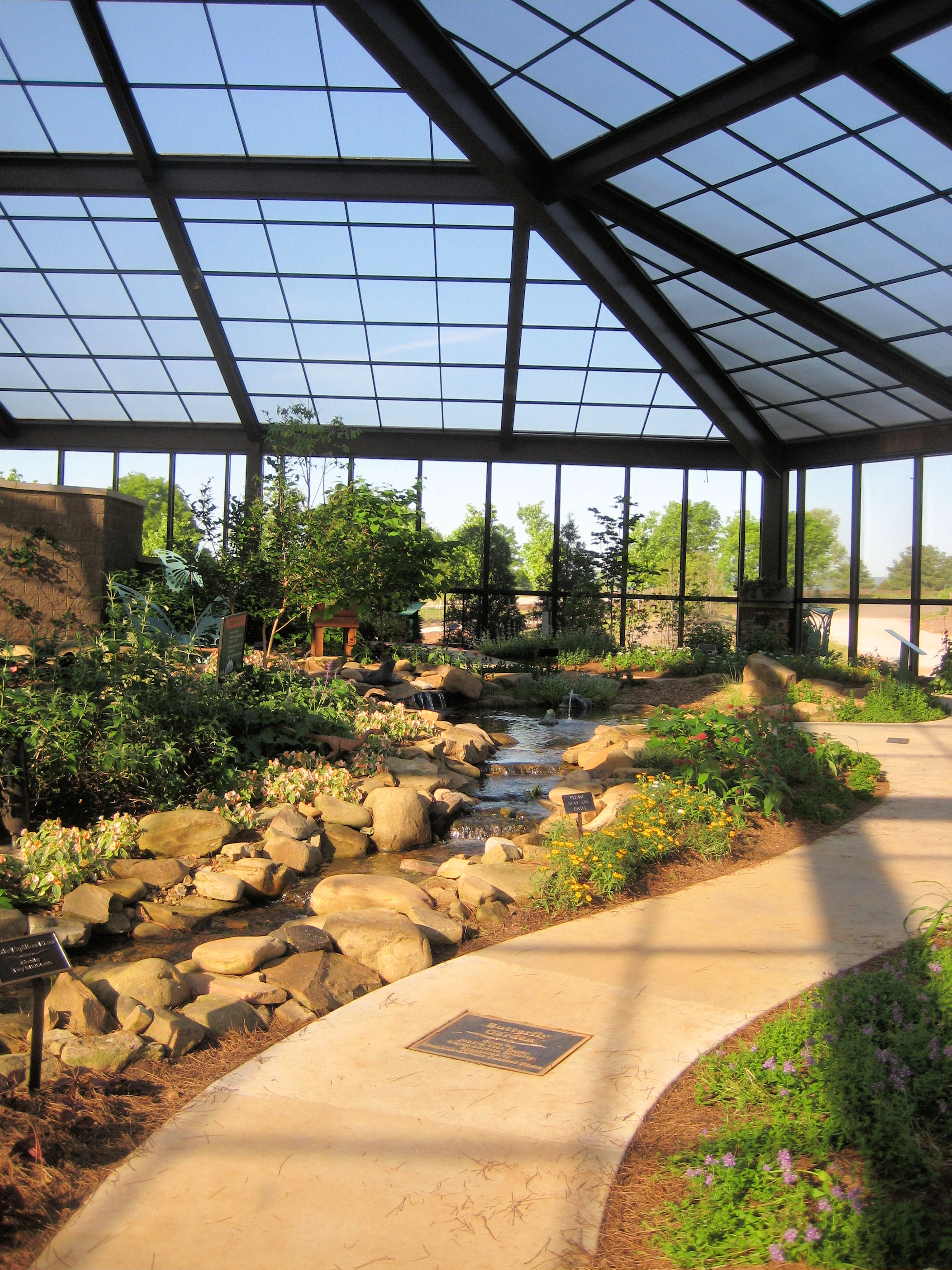 Butterfly garden, Huntsville Botanical Garden, Alabama